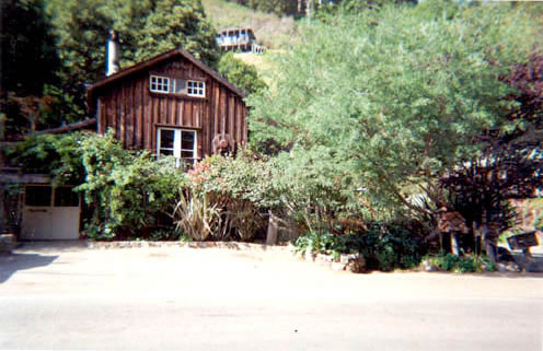 Deetjens Inn founded in 1939 by Helmuth and Helen Haight Deetjen in Big Sur, California.